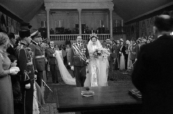 Wedding of Ahmet Zogu, King of Albania, with Geraldine Apponyi in 1938.